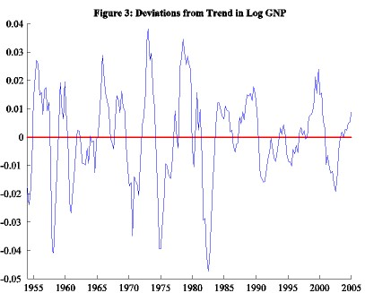 파일:Businesscycle figure3.jpg